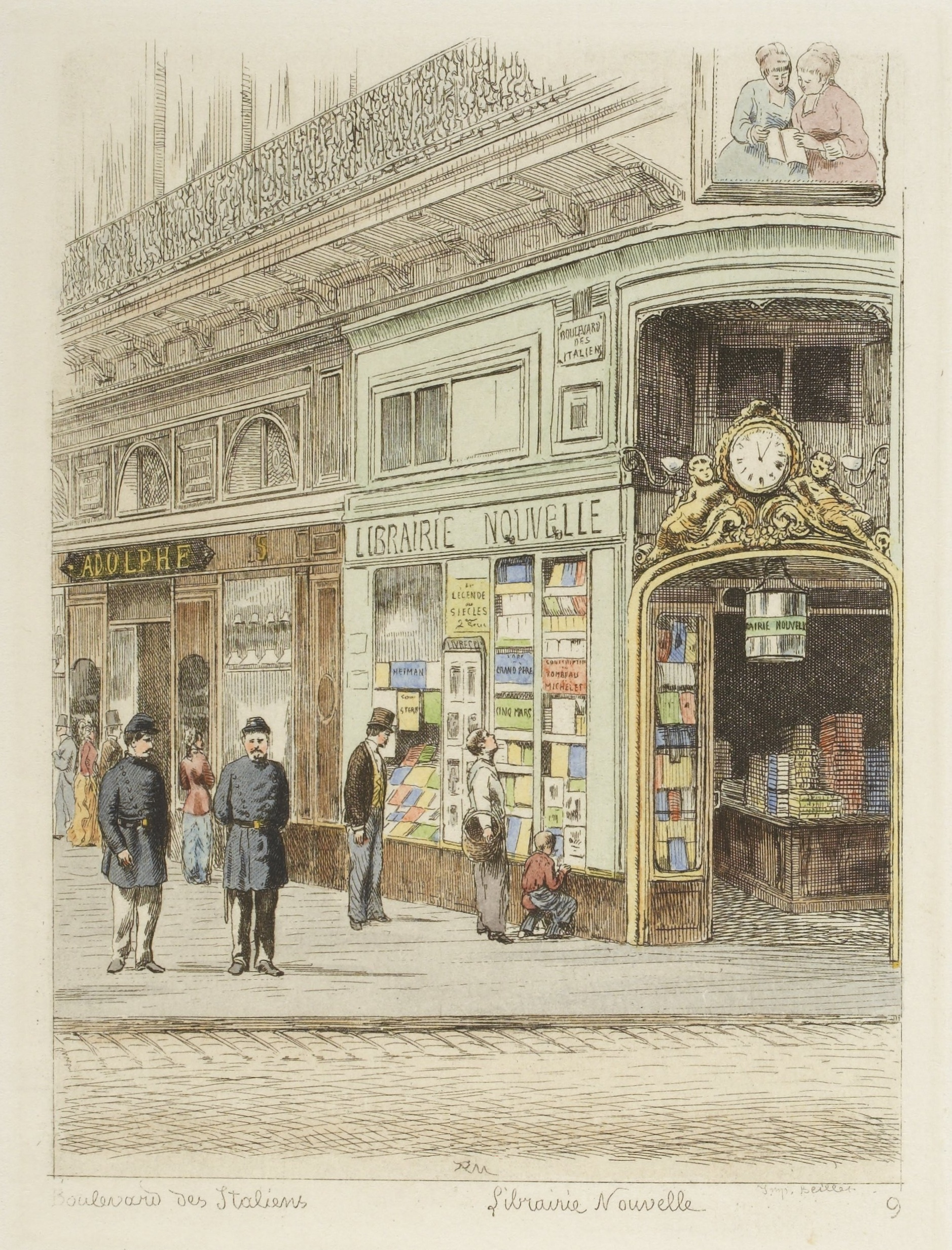 Librairie Nouvelle on the Boulevard des Italiens. Hand-coloured etchings of 1870s street scenes in Paris by A.-P Martial